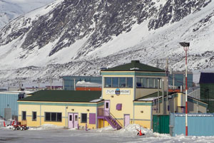 by Technicalglitch